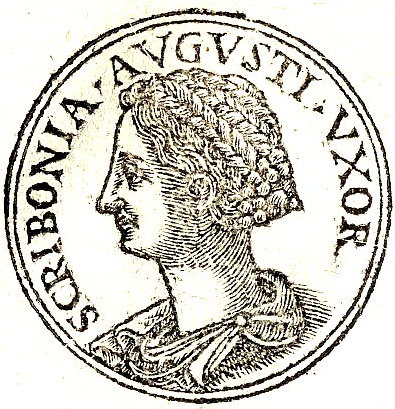 Scribonia was the second wife of Roman Emperor Augustus and the mother of his only natural child, Julia Caesaris.